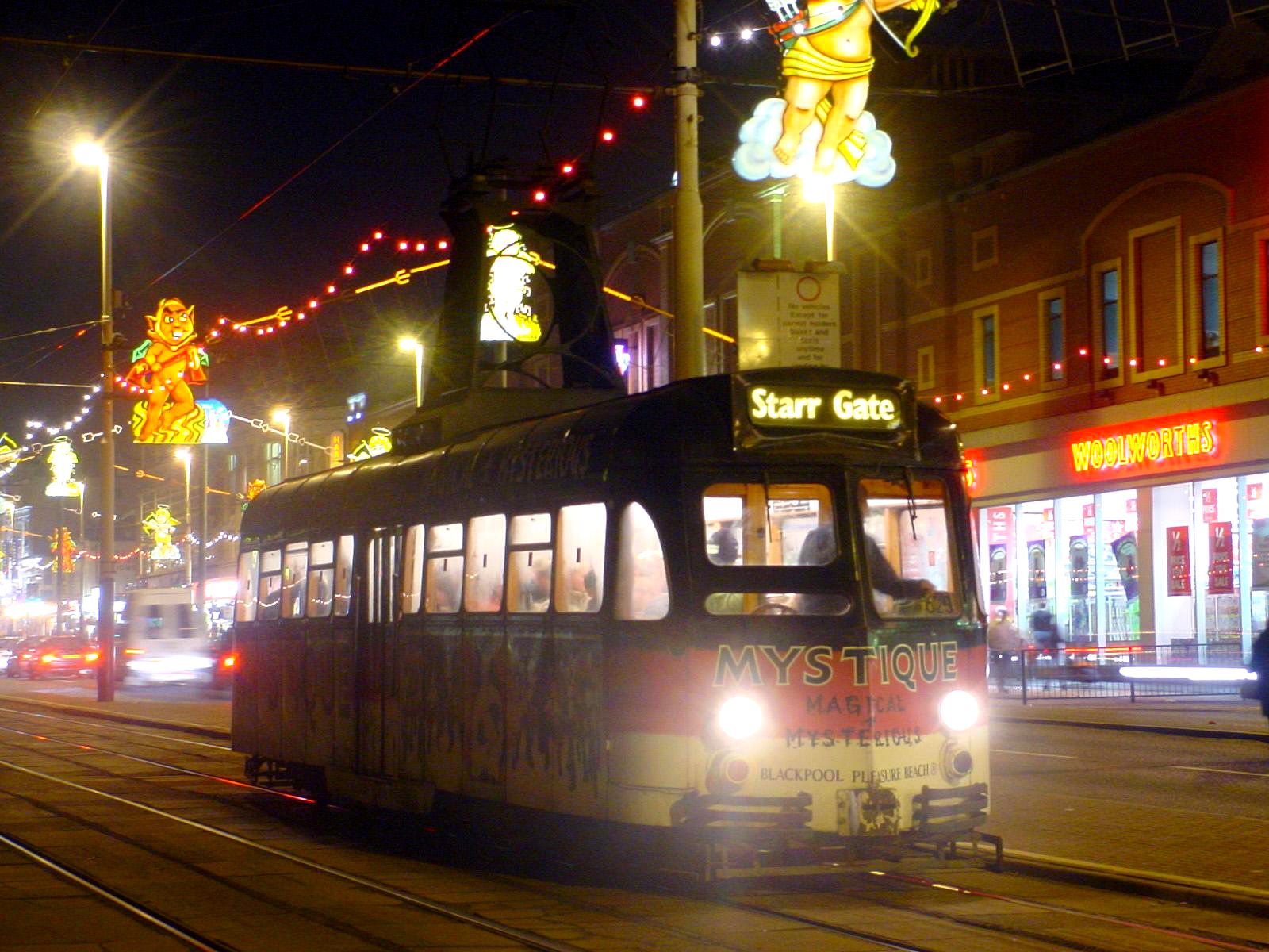 Author: Mark S Jobling